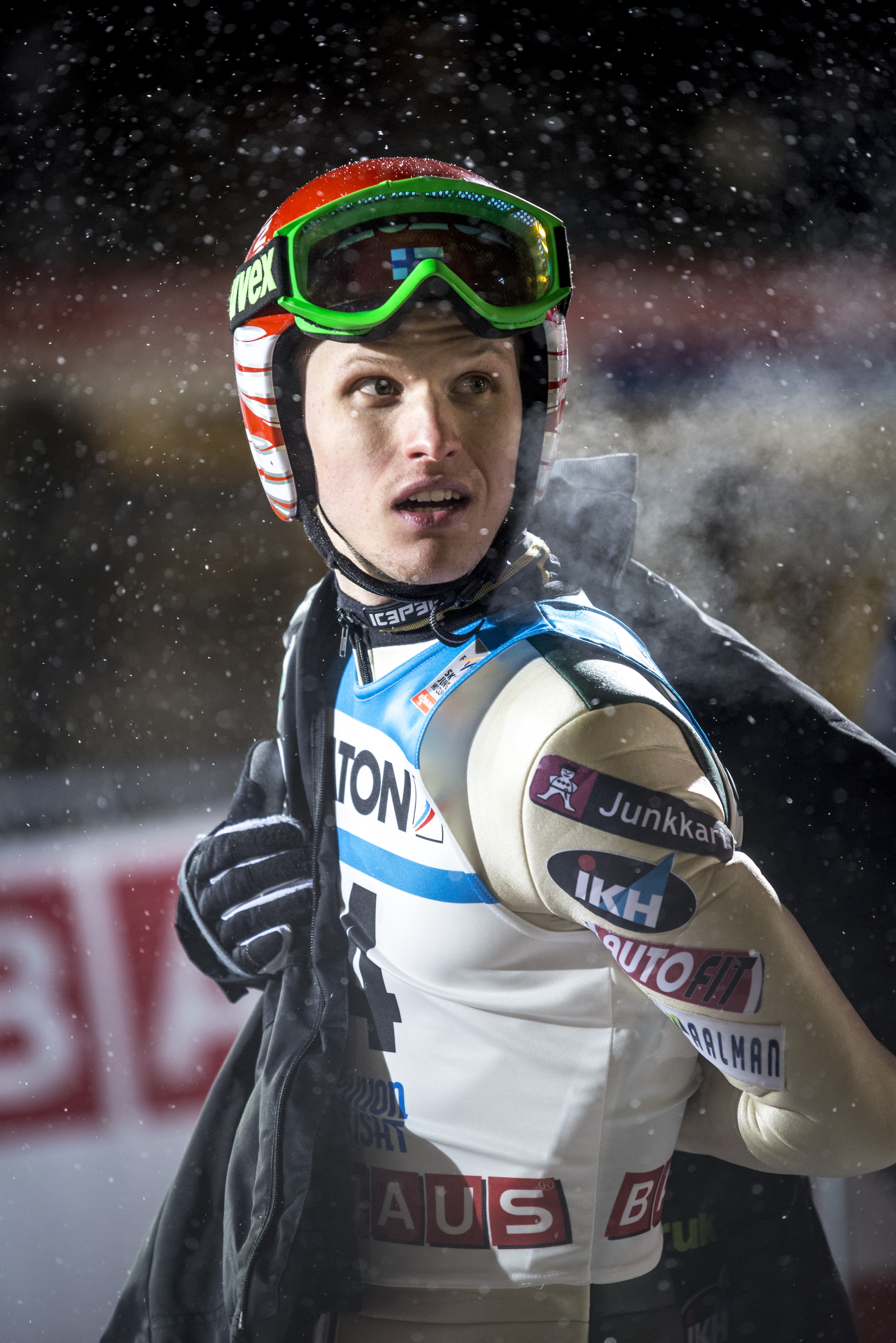 Finnish skijumper Lauri Asikainen at Puijo, Kuopio.